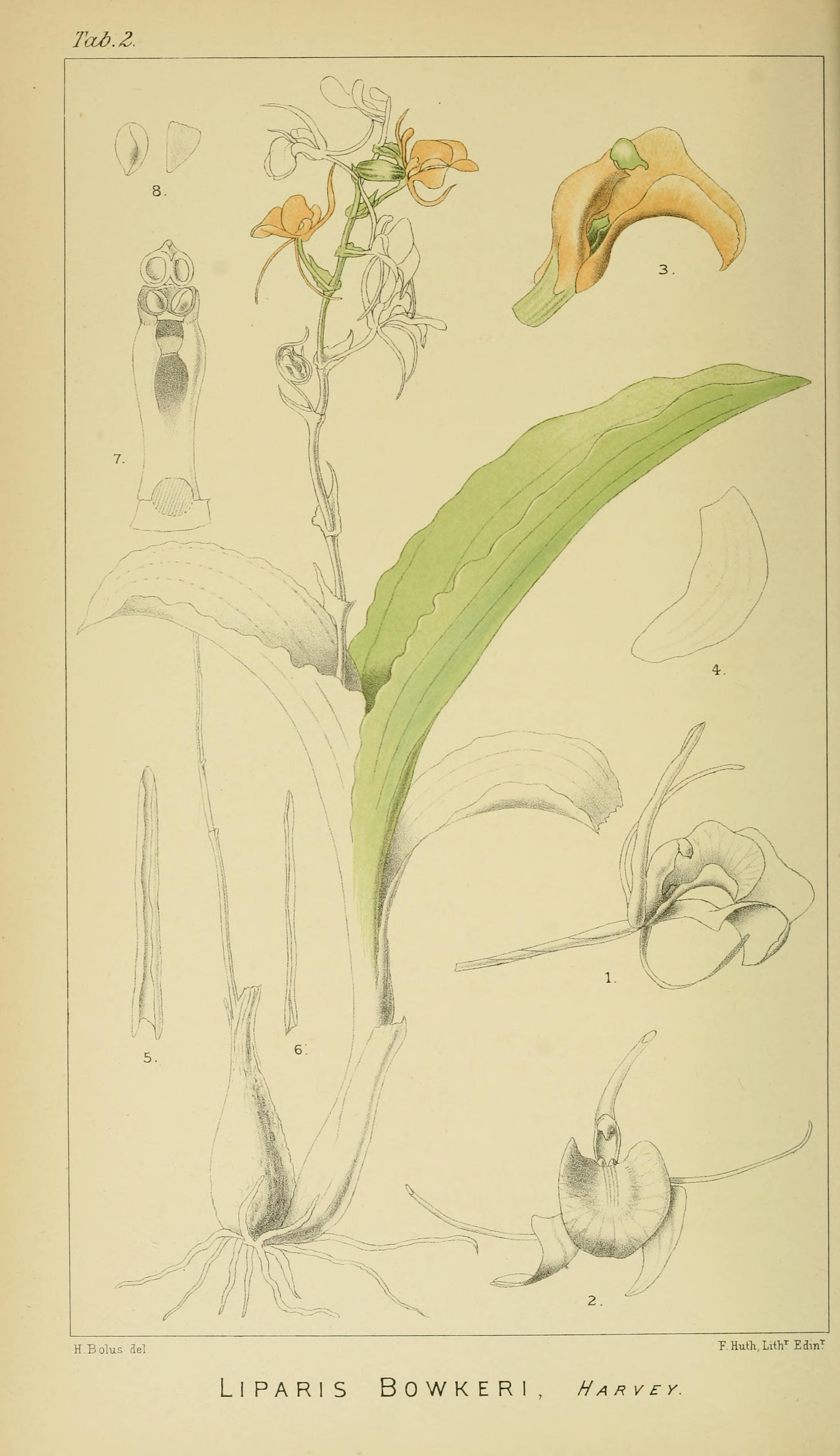 Liparis bowkeri